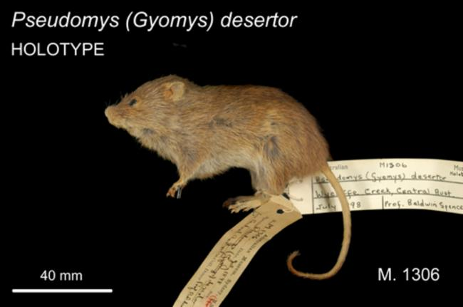 Pseudomys desertor Troughton. Type: holotype. Australian Museum.